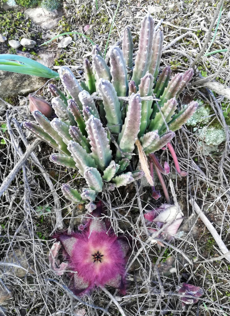 Stapelia hirsuta in Overberg region